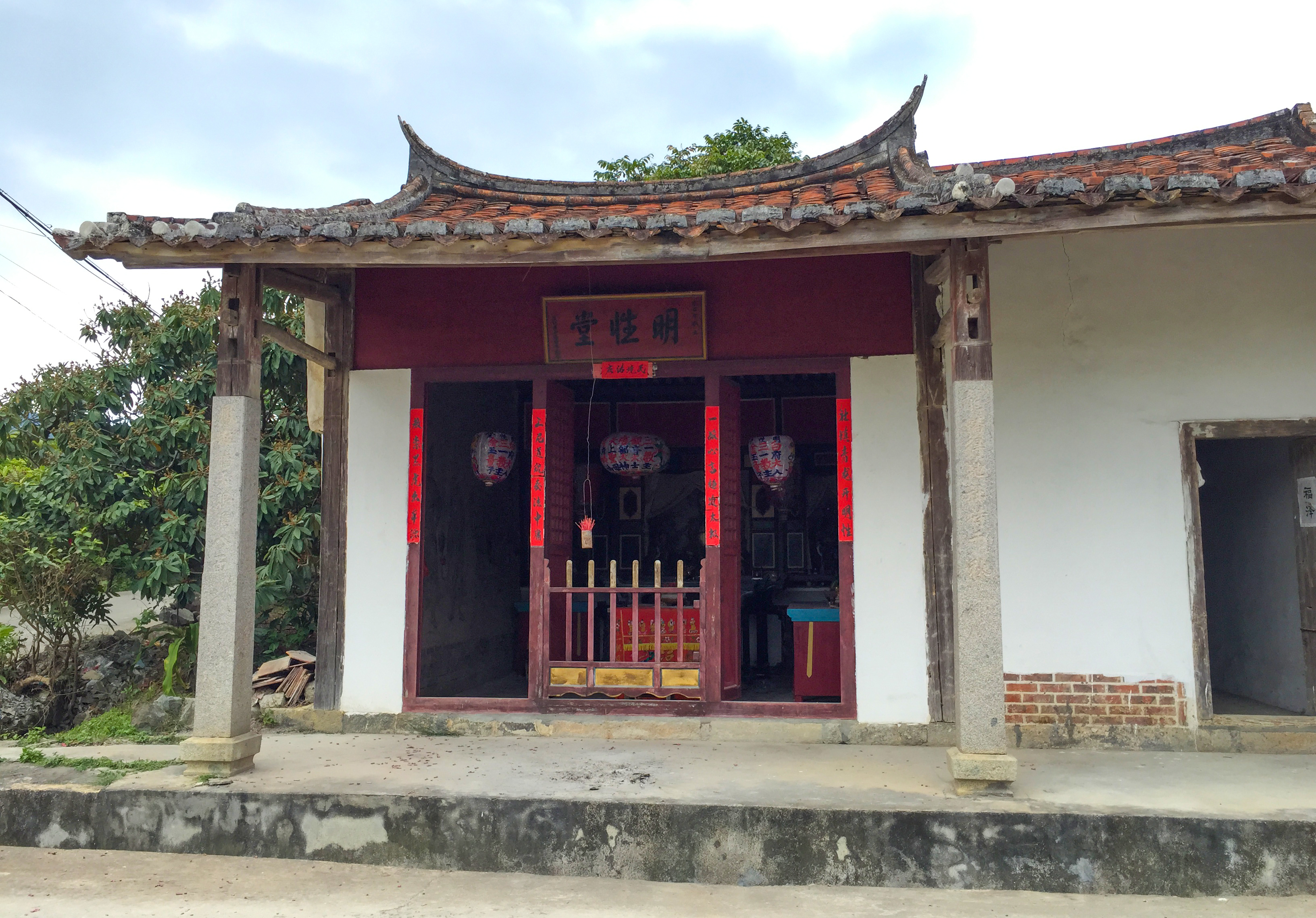 A vintage civilian religious hall in Xitianwei, Putian.